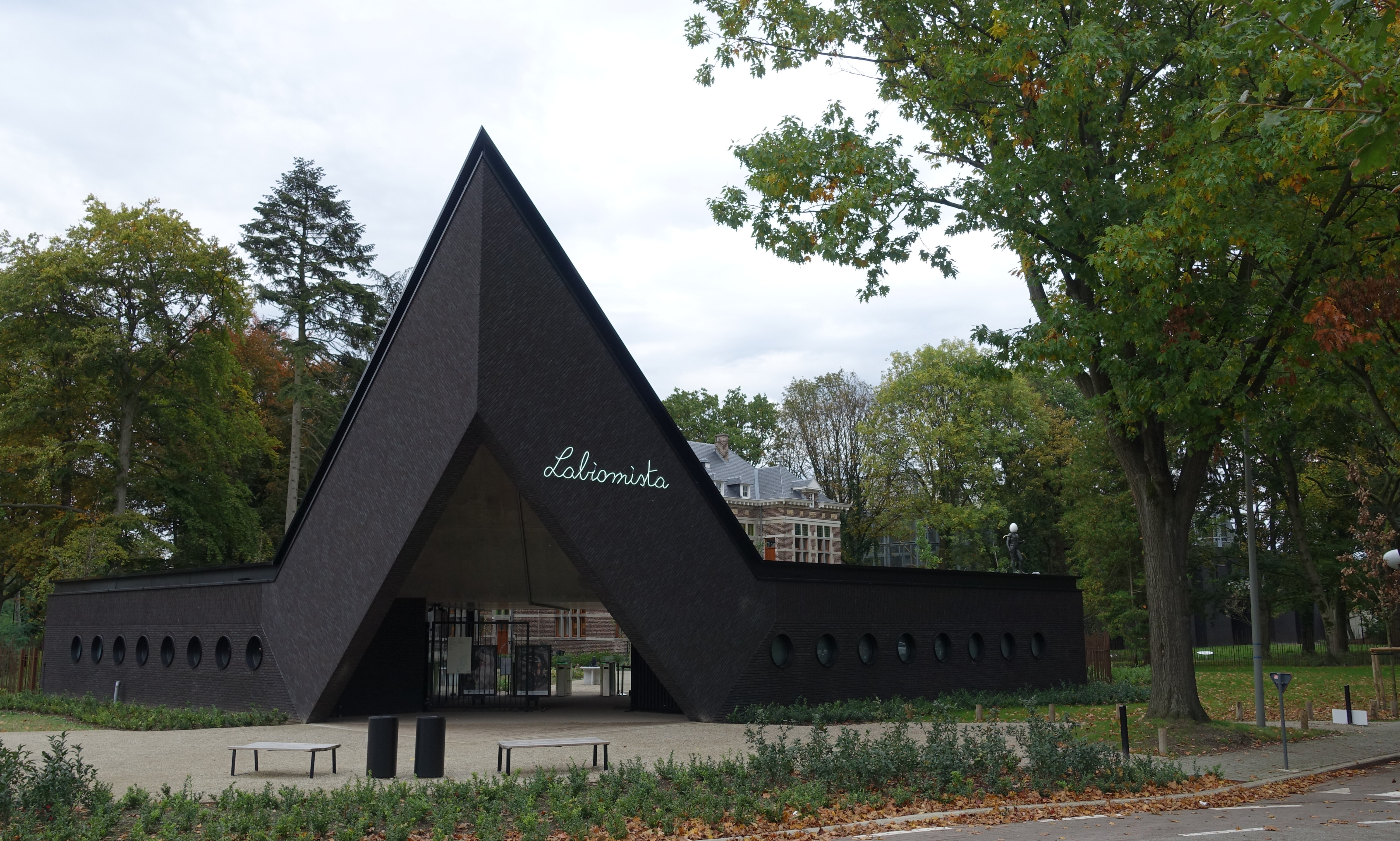 LABIOMISTA is the studio and foundation headquarters in Genk of the Belgian artist Koen Vanmechelen